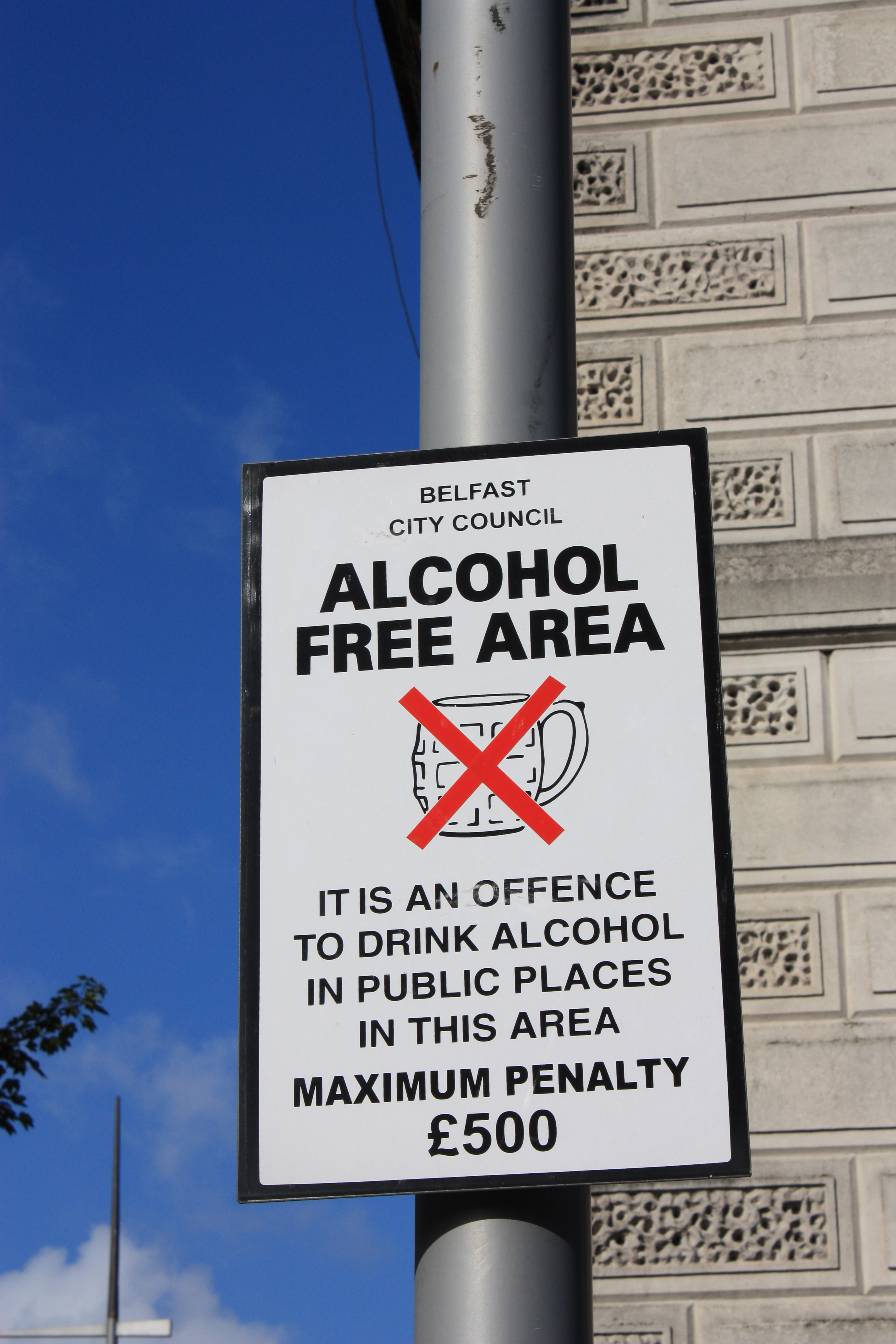 Sign at Queen's Square, Belfast, Northern Ireland, October 2009